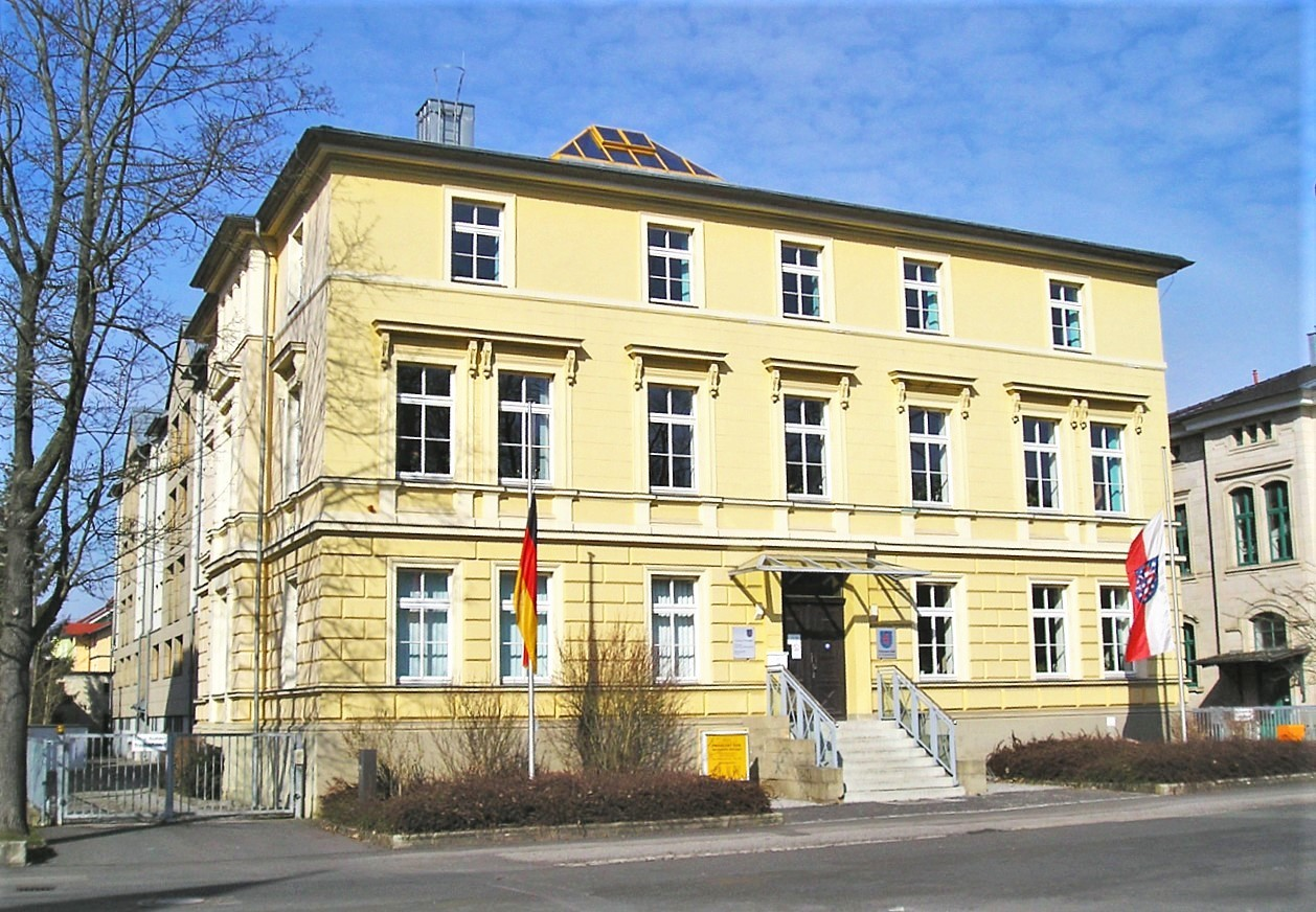 Bank building of Landeskredianstalt in city Meiningen, germany.